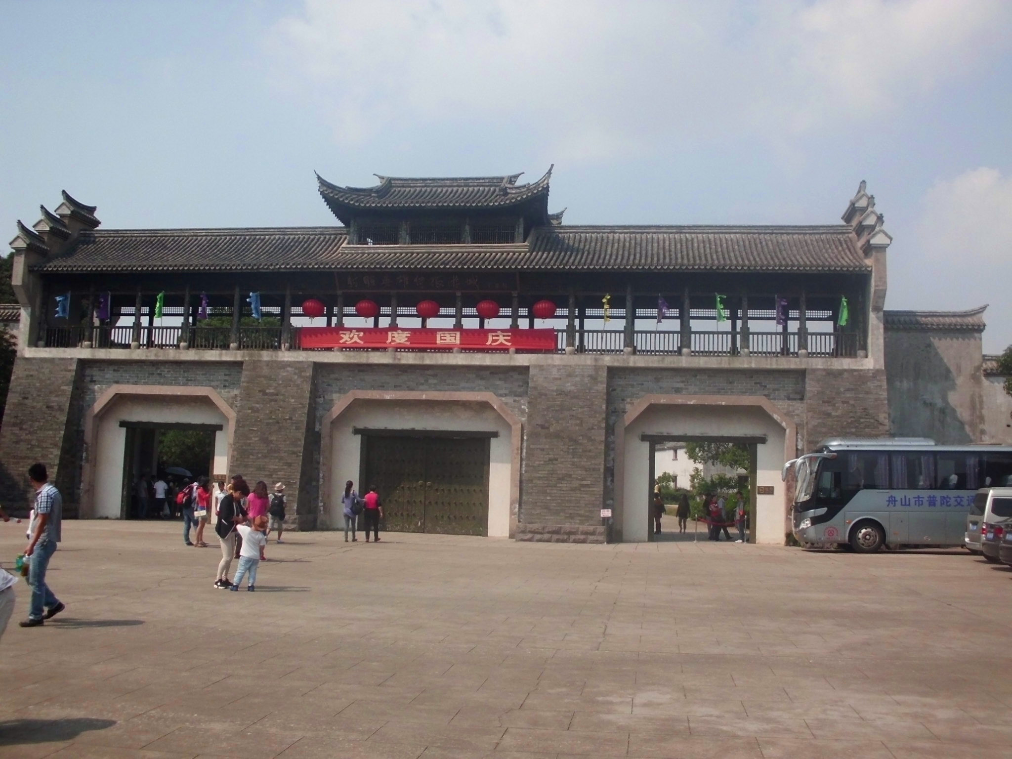 Taohua Island